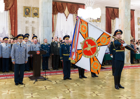 Banner of Military Academy of the General Staff of the Armed Forces of Russia.